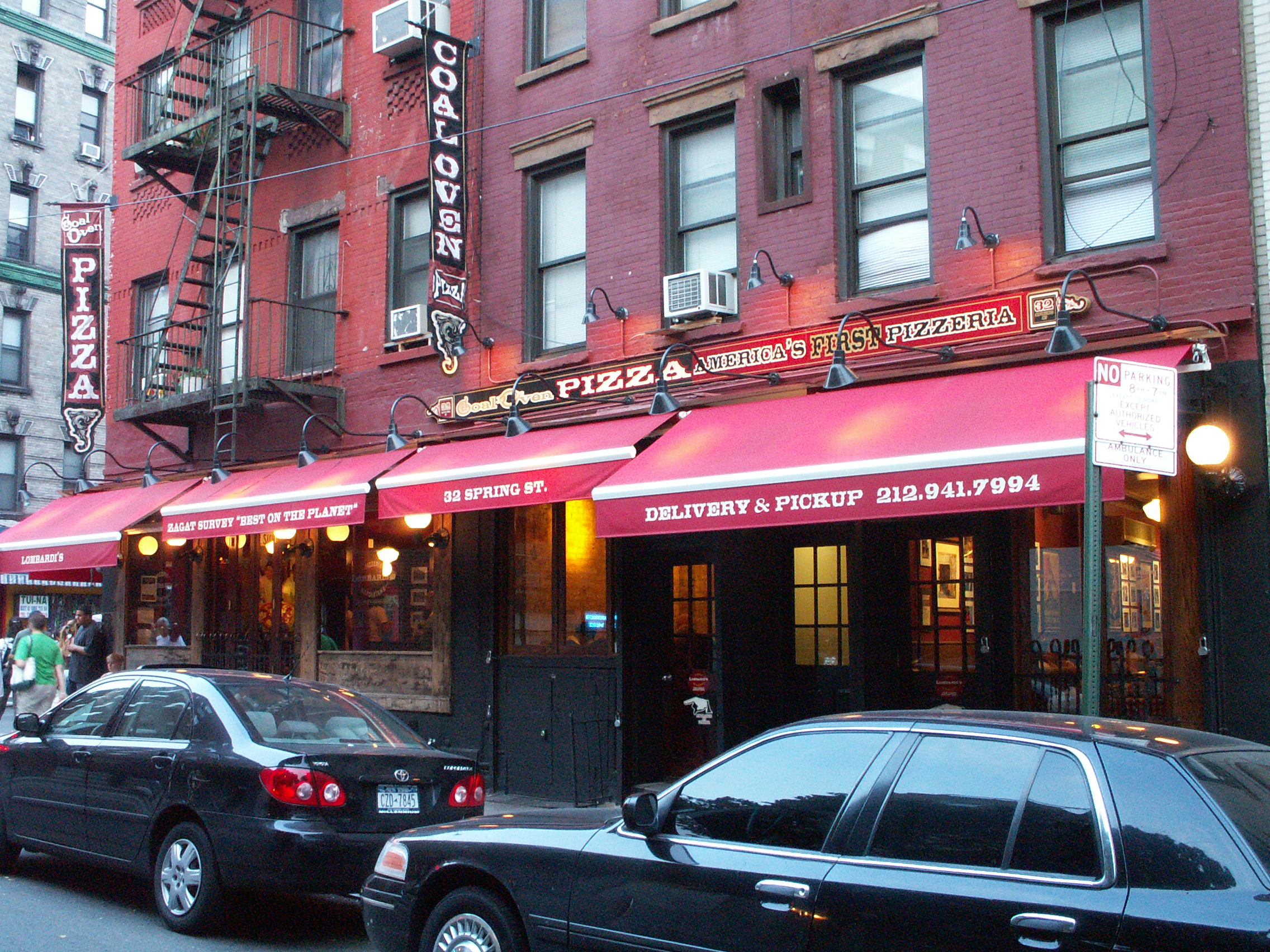 Lombardi's Pizza in Little Italy which claims to be the first pizzeria in New York City. Photo taken by poster in July 2006.